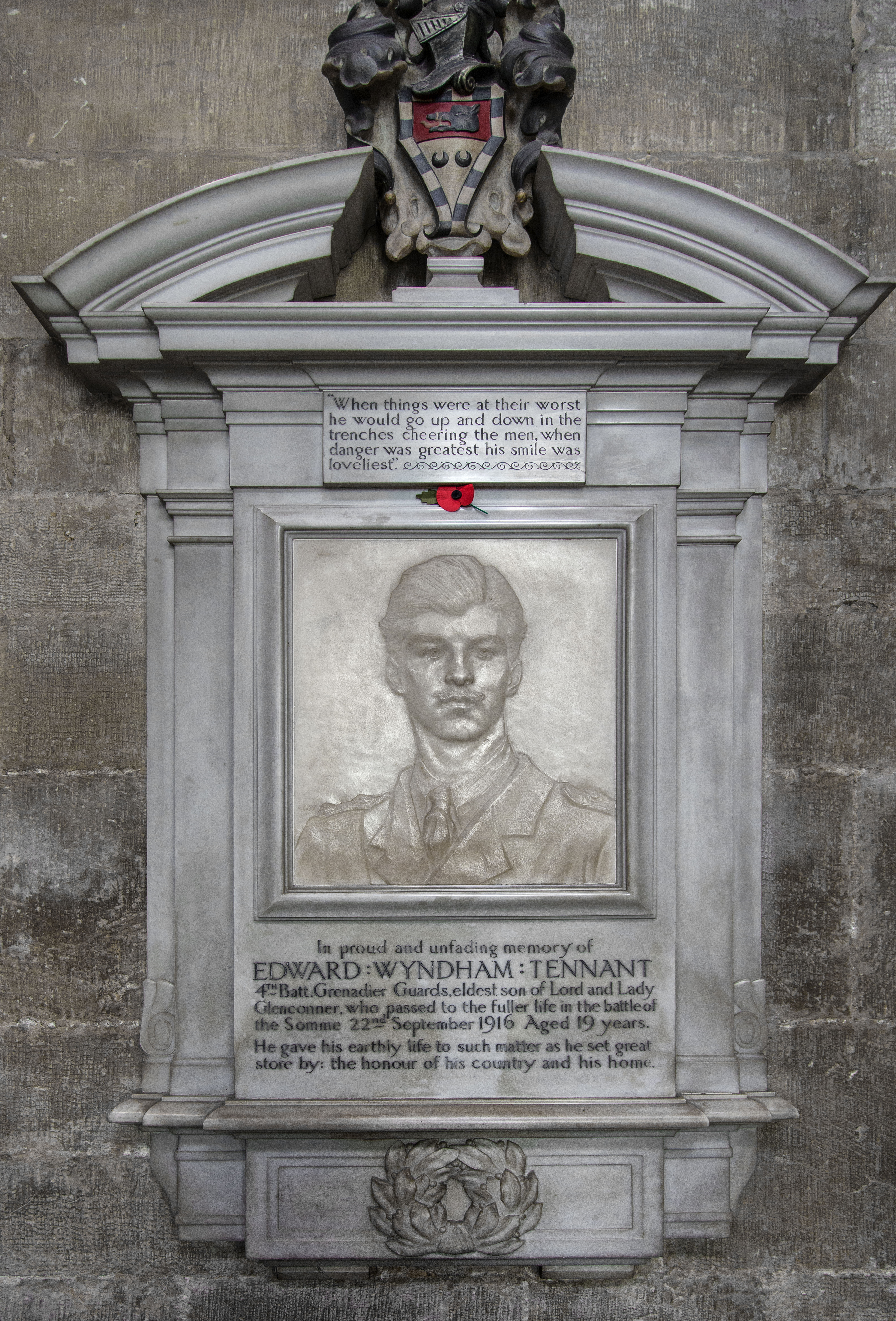 Memorial for Edward Wyndham Tennant at Salisbury Cathedral. Sculpted by Allan Gairdner Wyon.